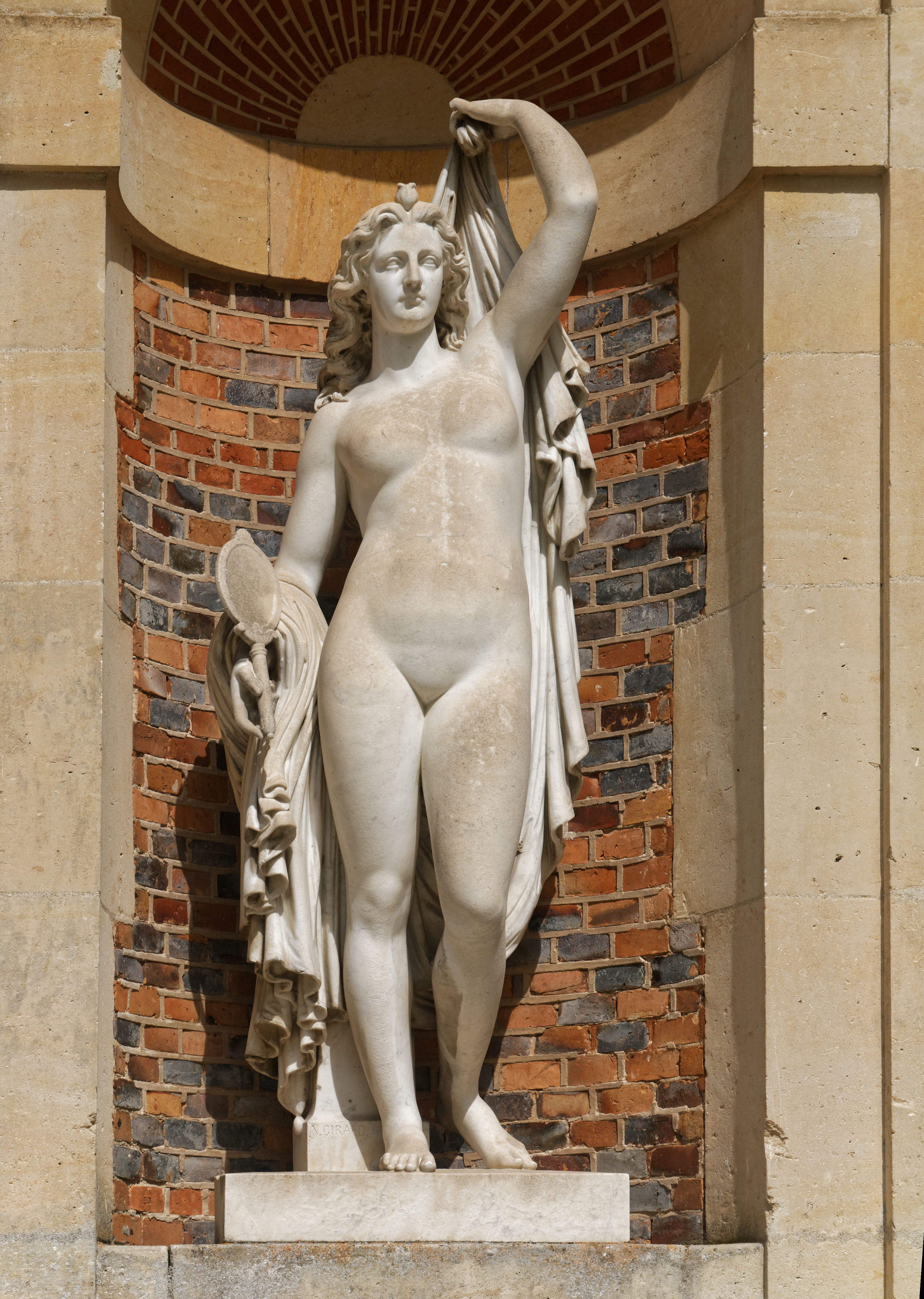 Woman coming out of bath holding a mirror.